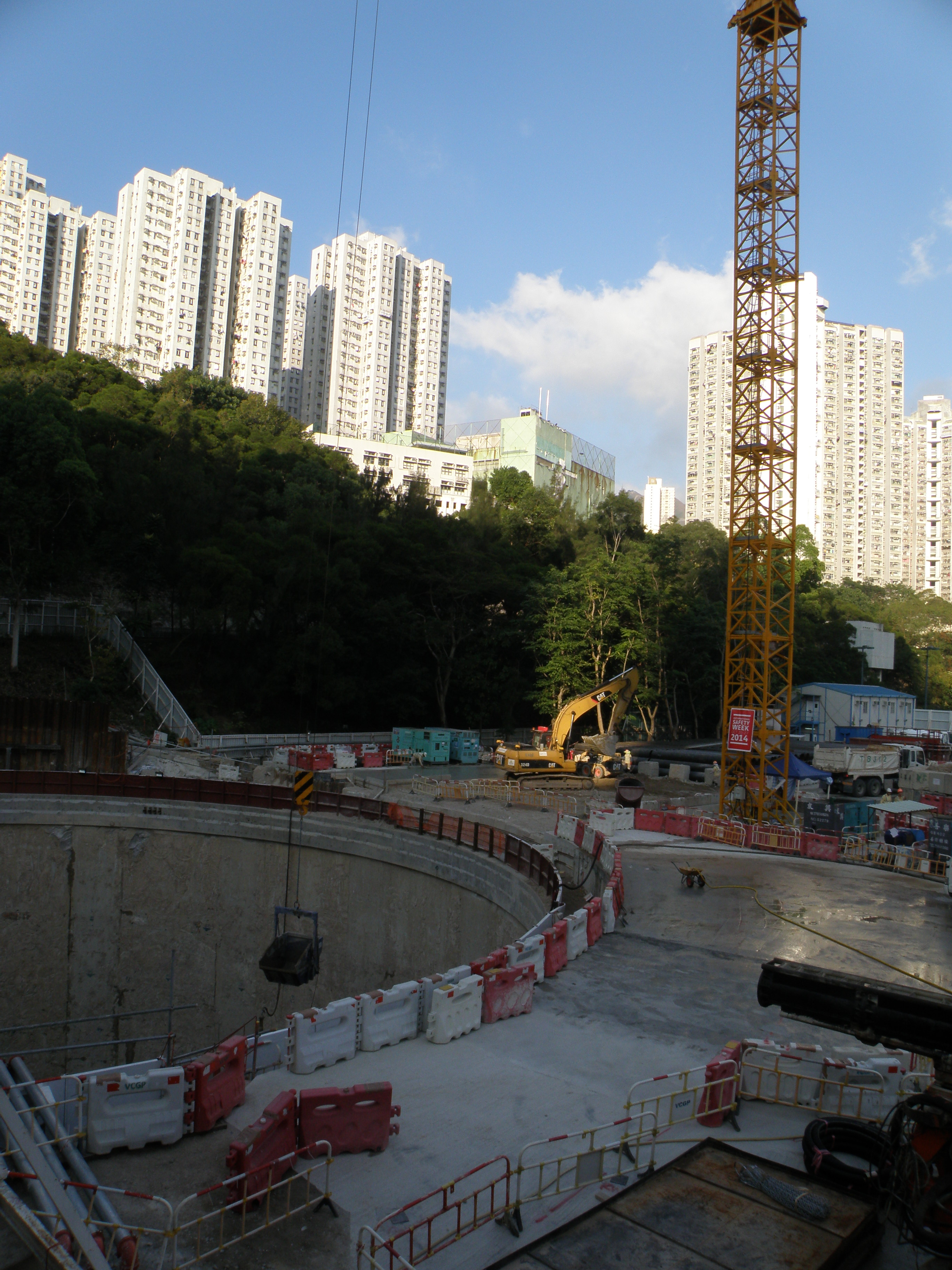 MTR Hin Keng to Diamond Hill tunnel in Ma Chai Hang, Hong Kong.